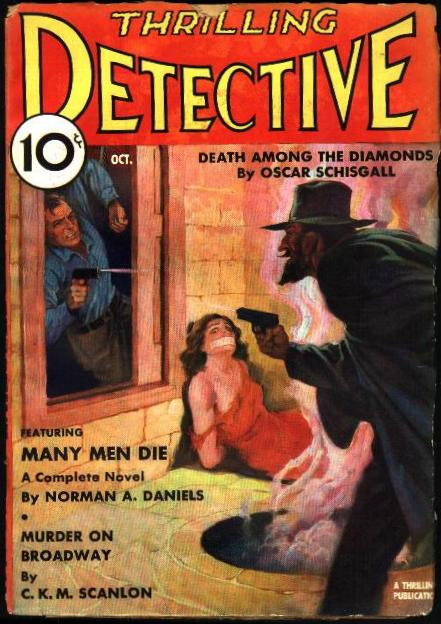 Cover of the pulp magazine Thrilling Detective (October 1935, vol. 16, no 2) featuring "Death Among the Diamonds" by Oscar Schisgall and "Many Men Die" by Norman A. Daniels.